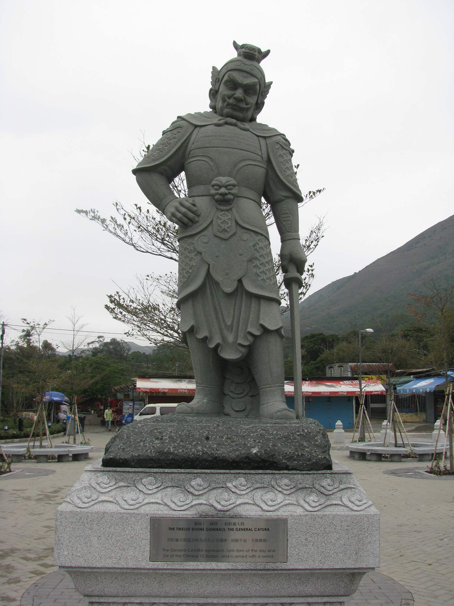 One of the 12 Chinese heavenly generals who are considered to be protector of Buddhism. He is General Catura weaponed with Sword